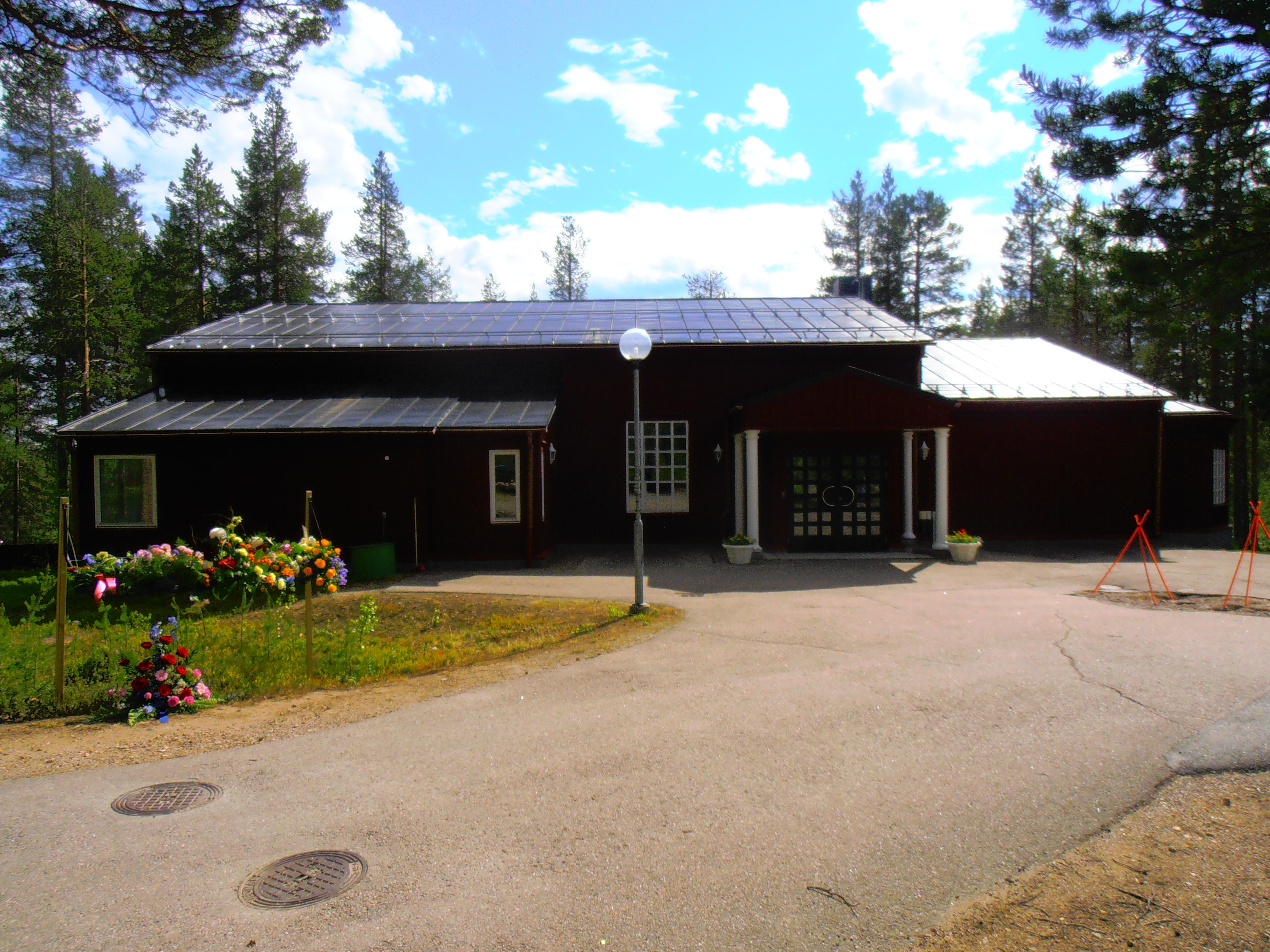 The Trinity Chapel, Gällivare